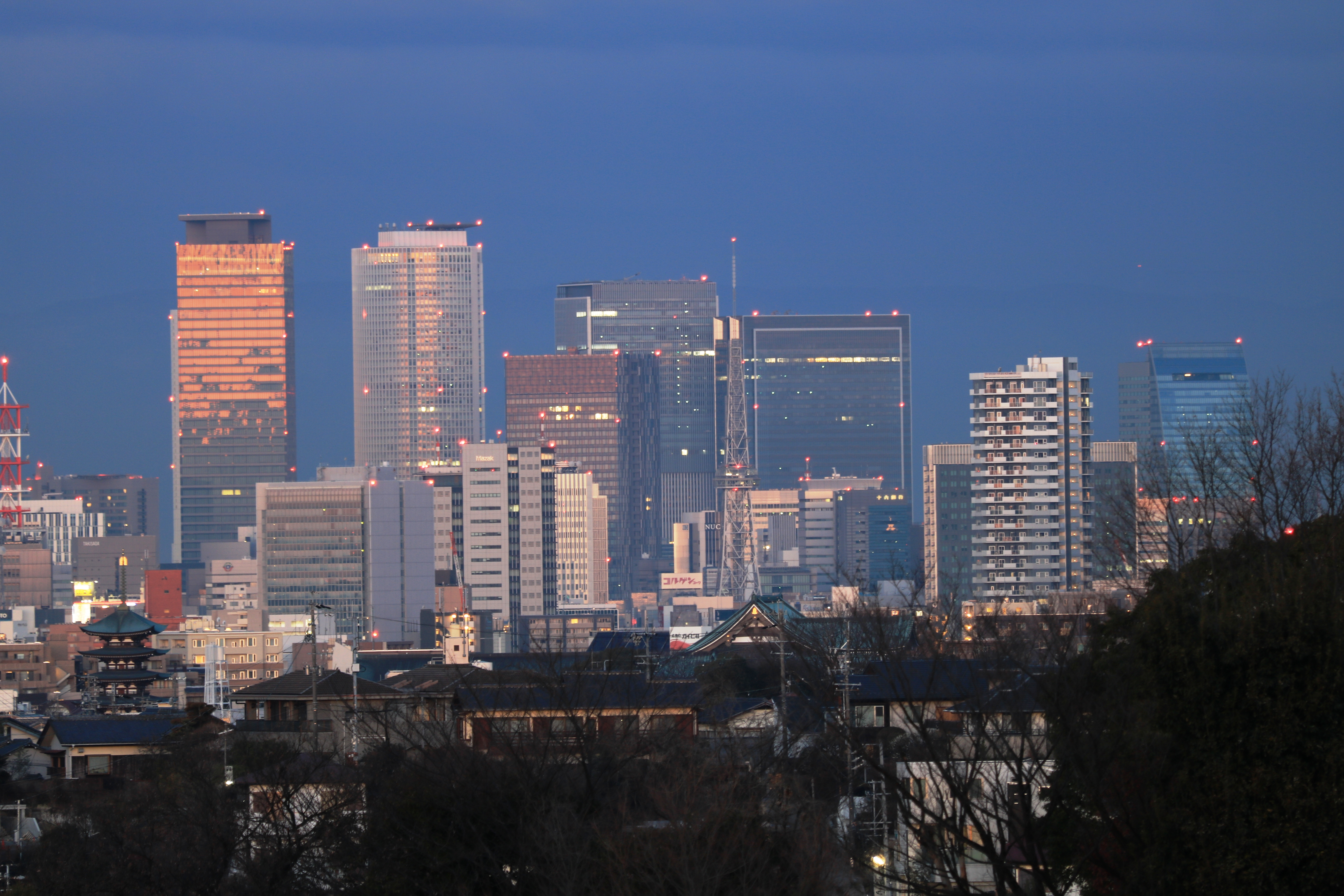 Skyscrapers of Meieki seen from Heiwa Park in Nagoya, Aichi prefecture, Japan.